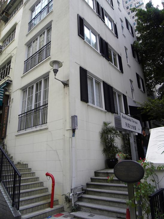 Rednaxela Terrace, Mid-levels, Hong Kong